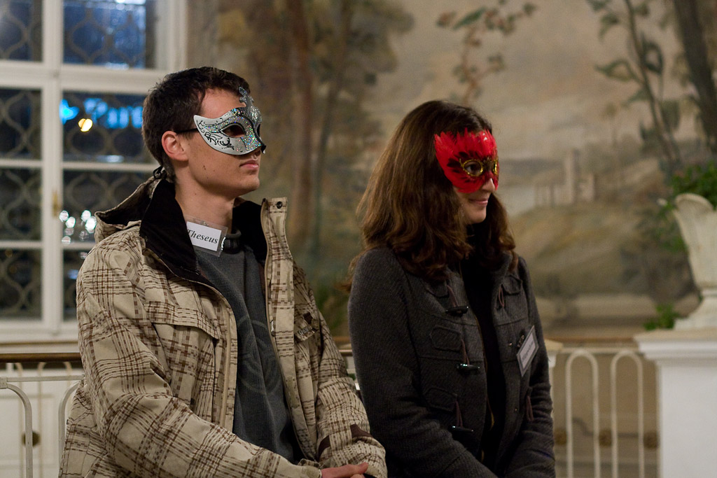 Two people playing larp game "A Midsummer Night's Dream"